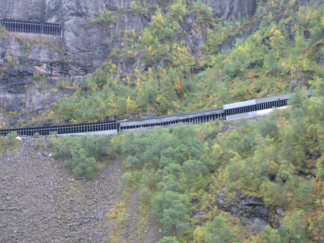 Railway gallery in Flåmsdalen valley, Norway. Original description: Flåm Railway Flåmsbana